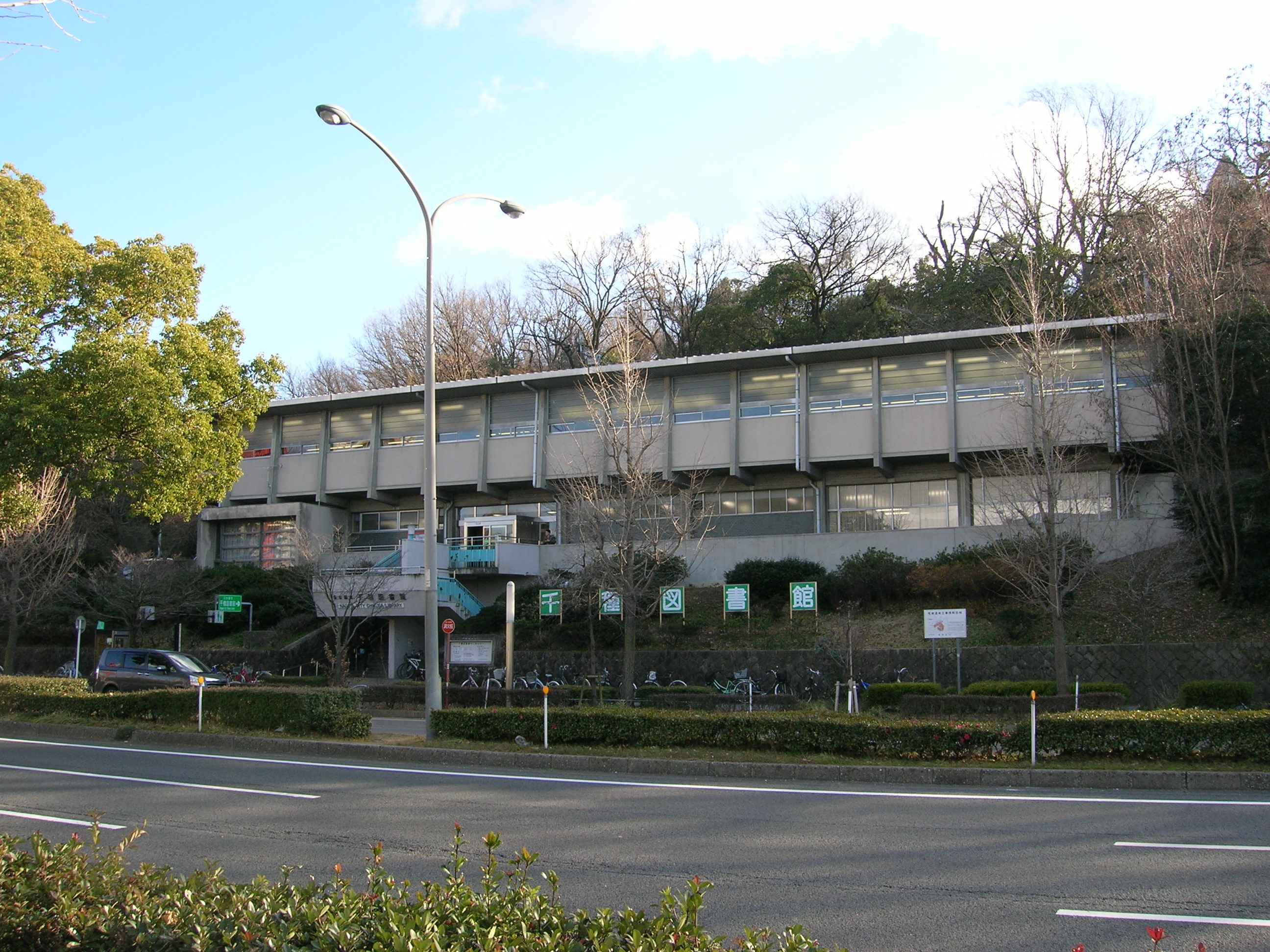 Nagoya City Minato library. Loc: Chikusa-ku, Nagoya city, Aichi Prefecture, Japan.